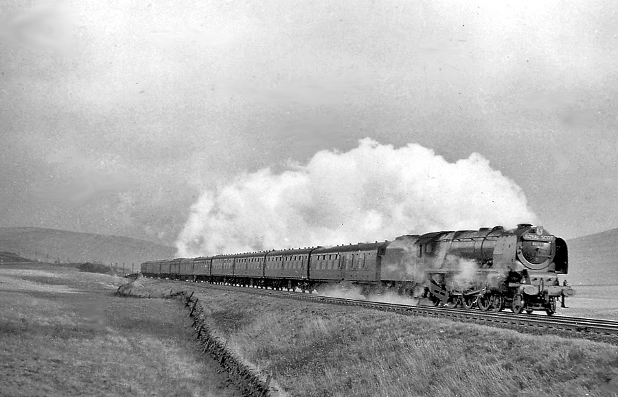 The Royal Scot approaches Beattock Summit. View eastward, down towards Beattock, Carlisle and the South; ex-Caledonian West Coast Main Line. Stanier 'Coronation' 8P 4-6-2 No. 46227 'Duchess of Devonshire' seems in splendid form, breasting the summit of the 10-mile climb up from Beattock, apparently without a banker.